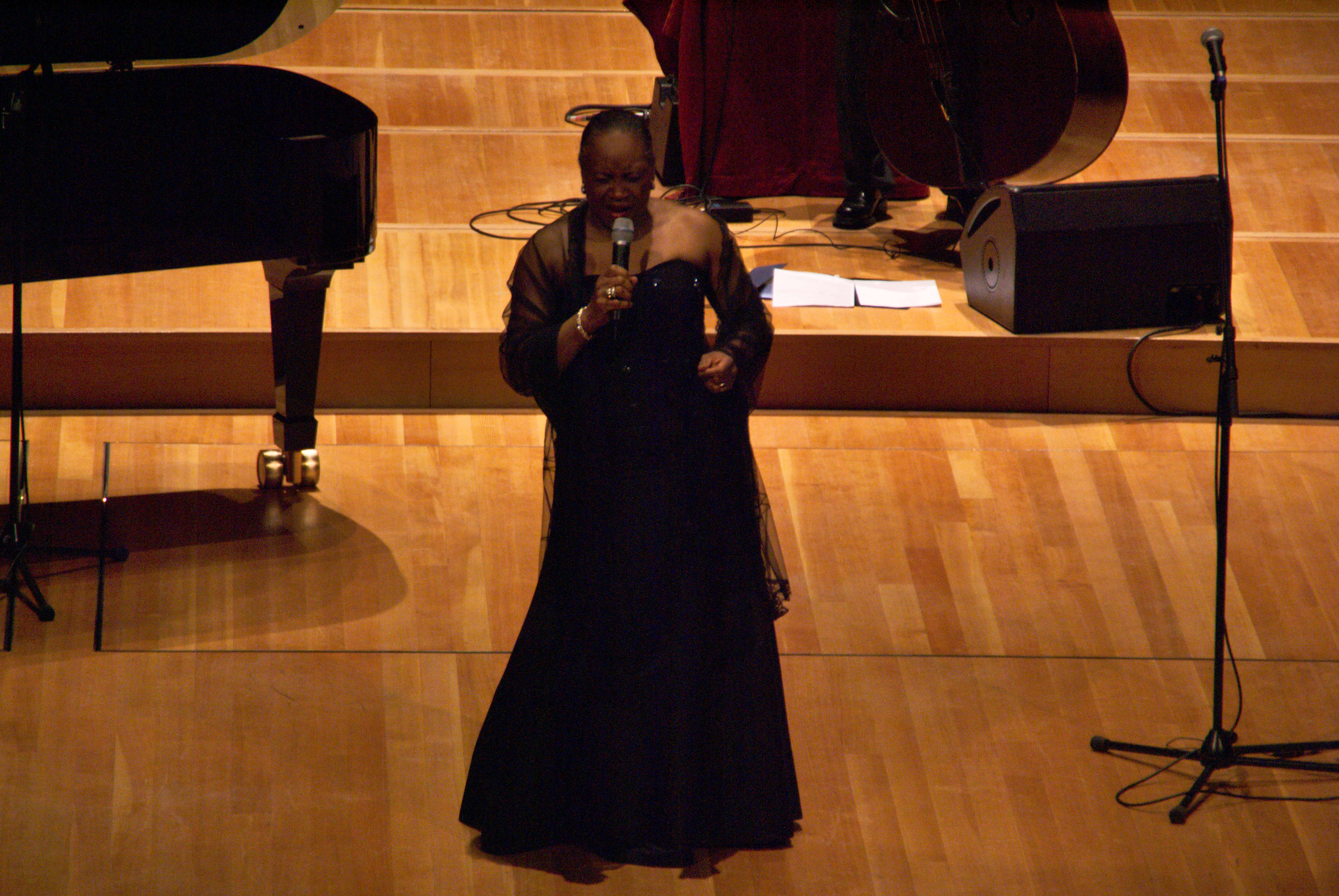 Barbara Hendricks performs with Magnus Lindgren Quartet, March 2007